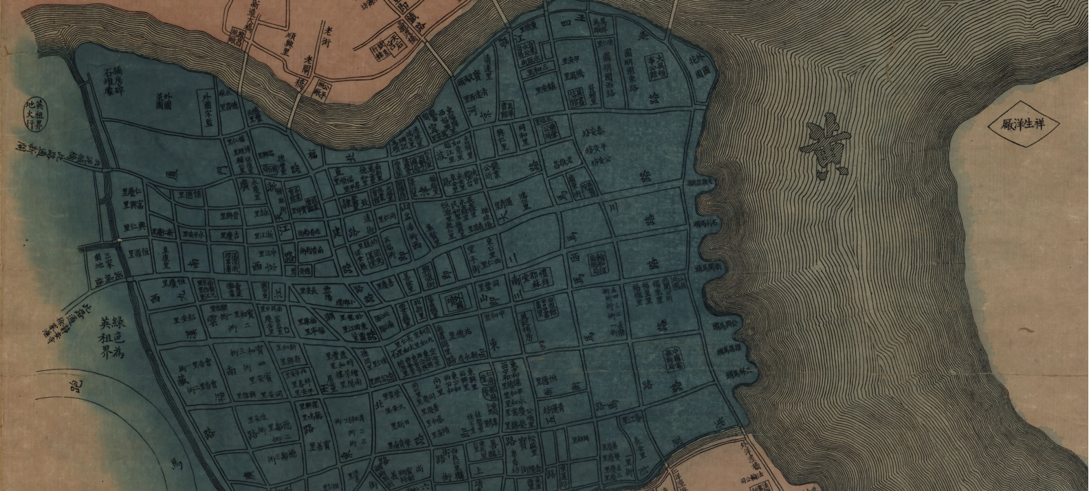 1884年上海北市-租界